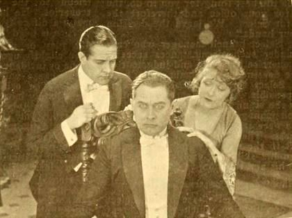 Still from the American film The Millionaire Pirate (1919) with an unidentified actor, Monroe Salisbury, and Ruth Clifford, on page 607 of the February 1, 1919 Moving Picture World.